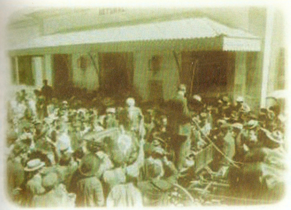 Postcard with the arrival of the portuguese politician Bernardino Machado at the Setubal Railway Station, for the inauguration of the Albergue Nocturno, in 1911.